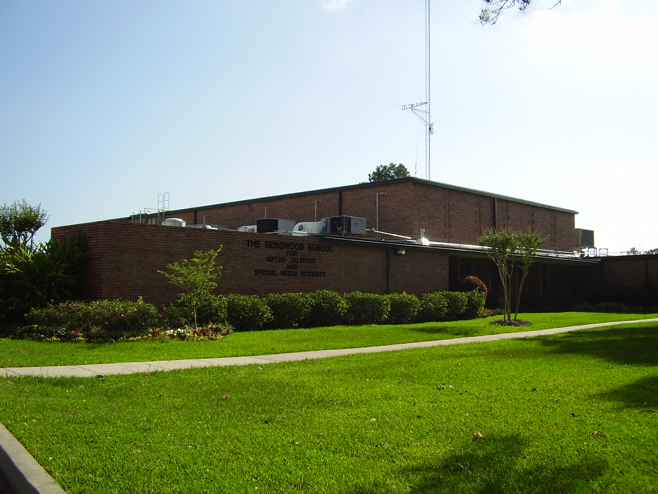 Bendwood School for Gifted, Talented, and Special Needs Students